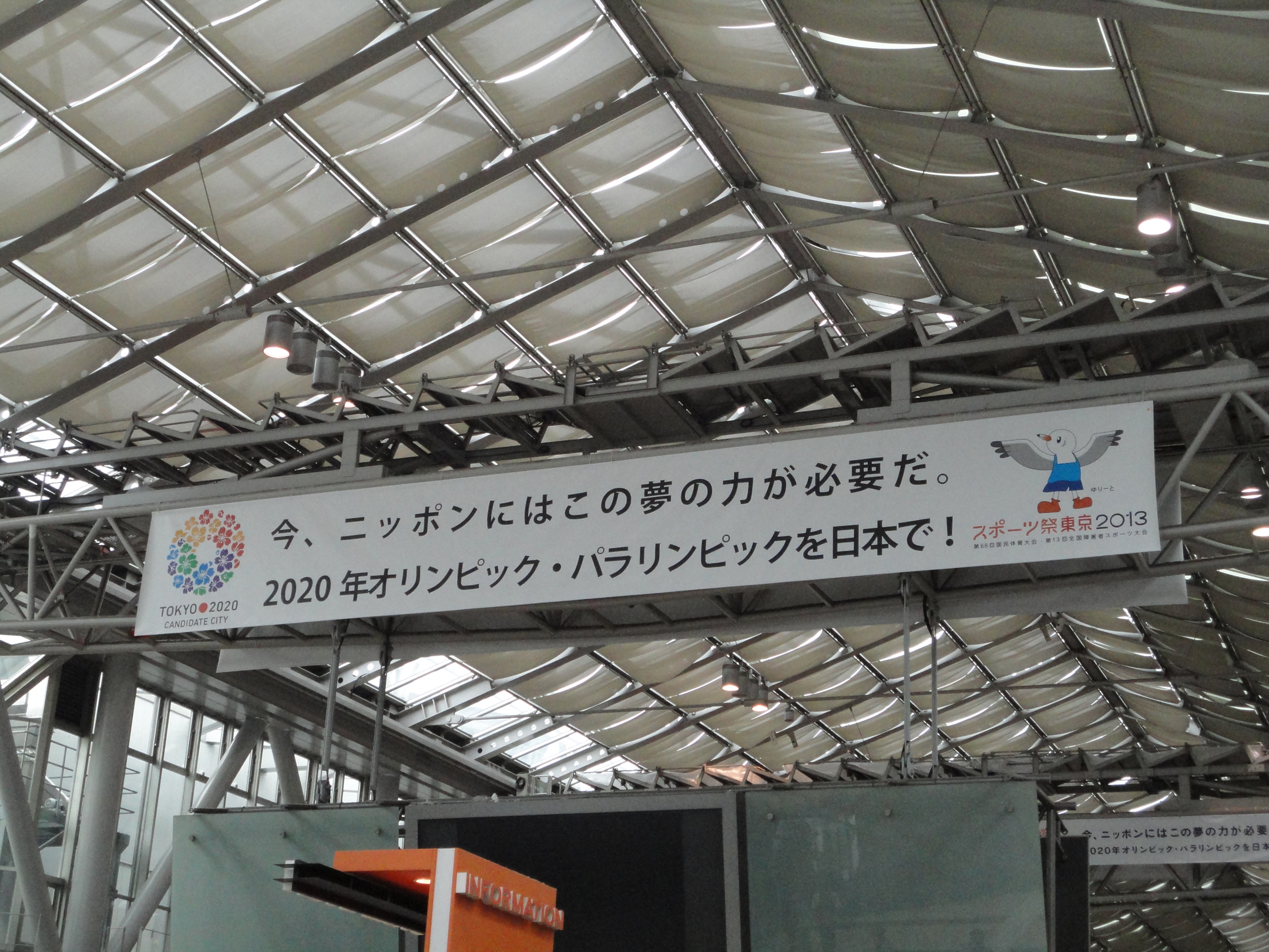 Announce of Bidding 2020 Summer Olympics at Tokyo Big Sight